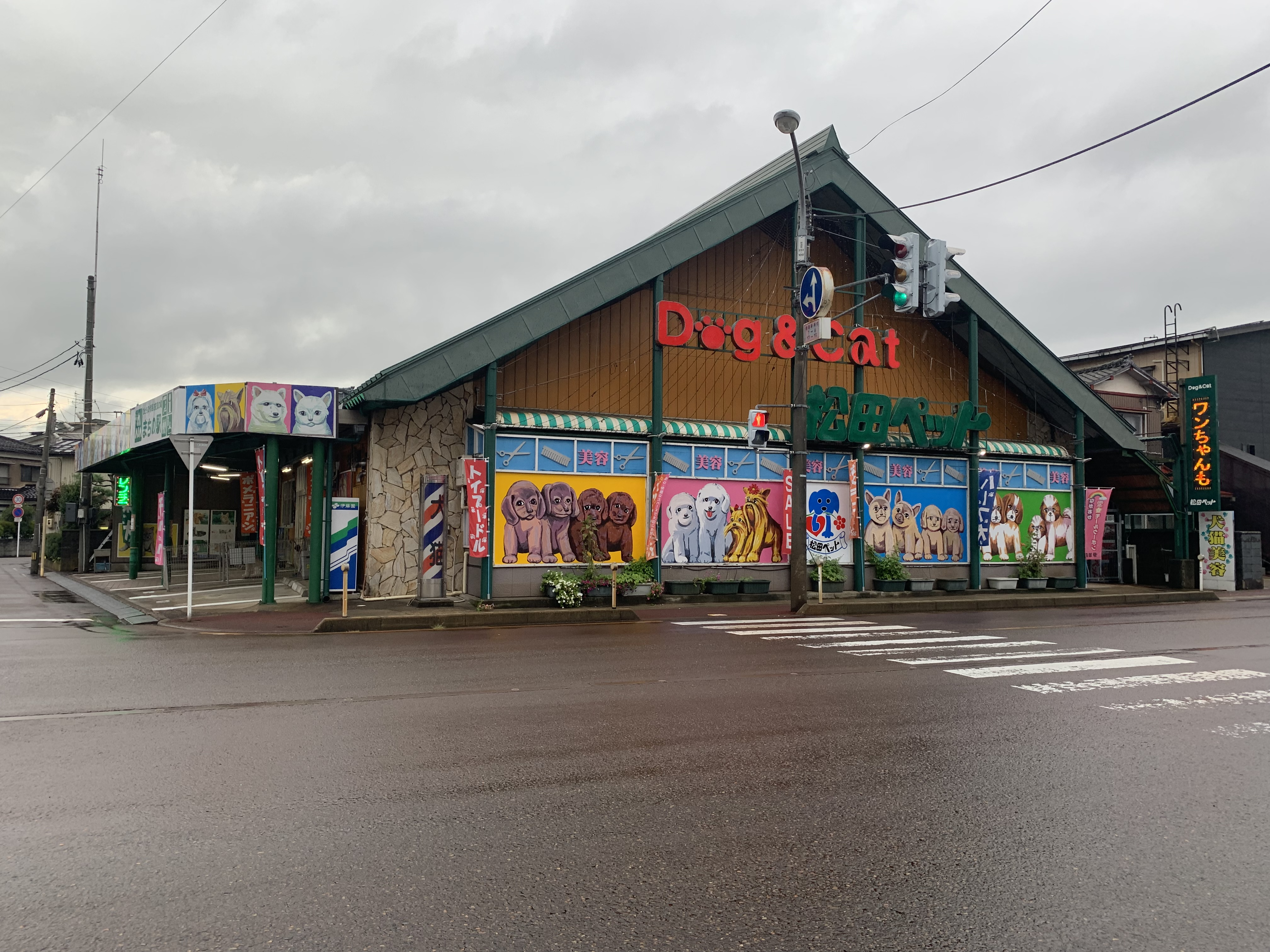 Matsuda Pet, Nagaoka, Niigata, Japan. Took photo in August 2019.